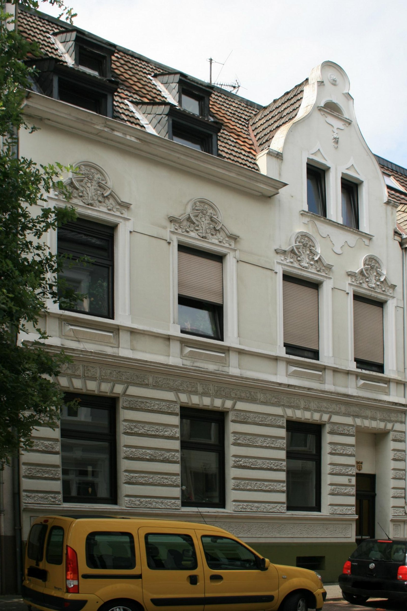 Cultural heritage monument No. B 161 in Mönchengladbach